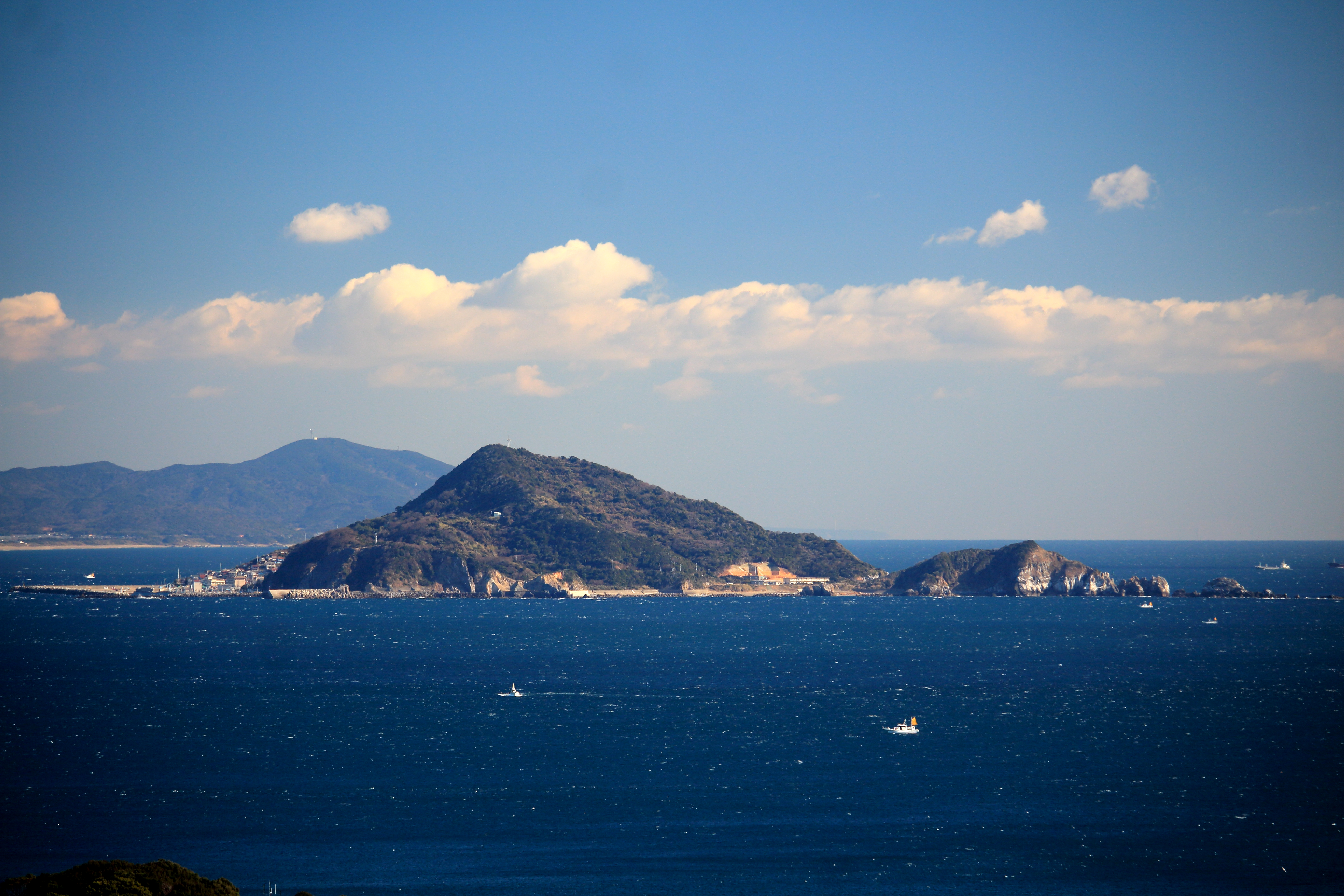 Kami Island and Mount Ō seen from Toshi Island in Toba, Mie prefecture, Japan.